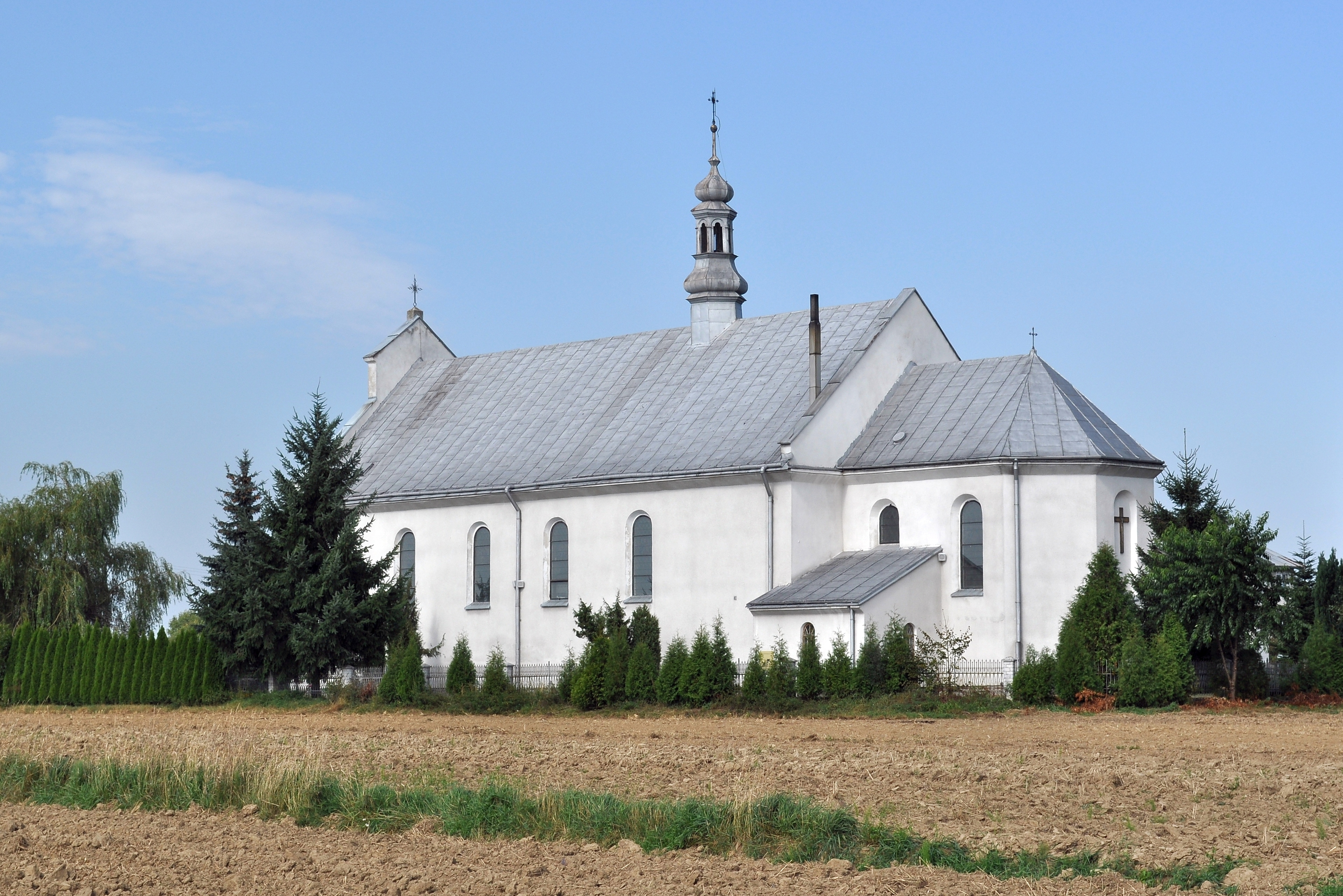 Church of Our Lady Help of Christians in Tuszów Narodowy